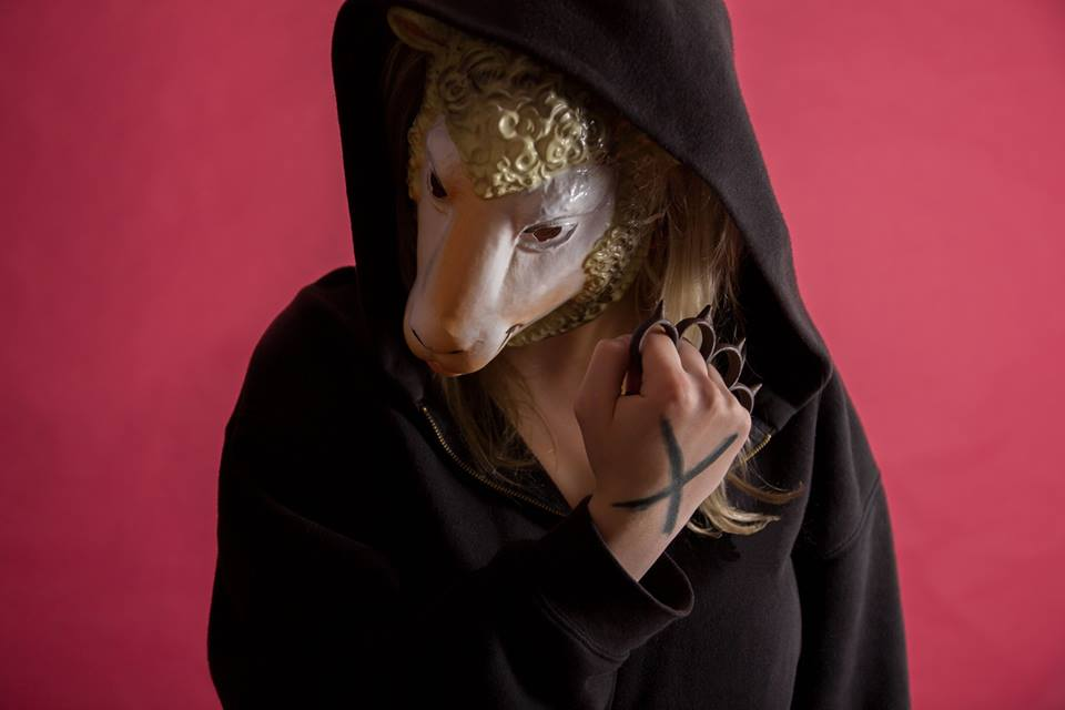 Pilz dem Straight Edge Symbol auf der Hand